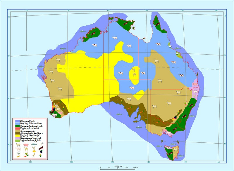 Australian agricultural map